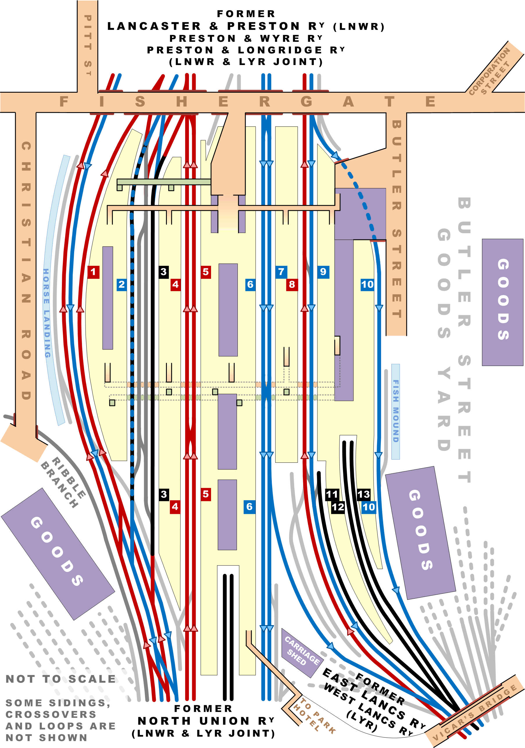 Layout of Preston railway station, Lancashire, England, in 1926. Loosely based on diagram in Gairns, J.F. (1926) "Notable Railway Stations and their Traffic: Preston, L.M.S.R.", Railway Magazine, 58 (347: May), p.338.